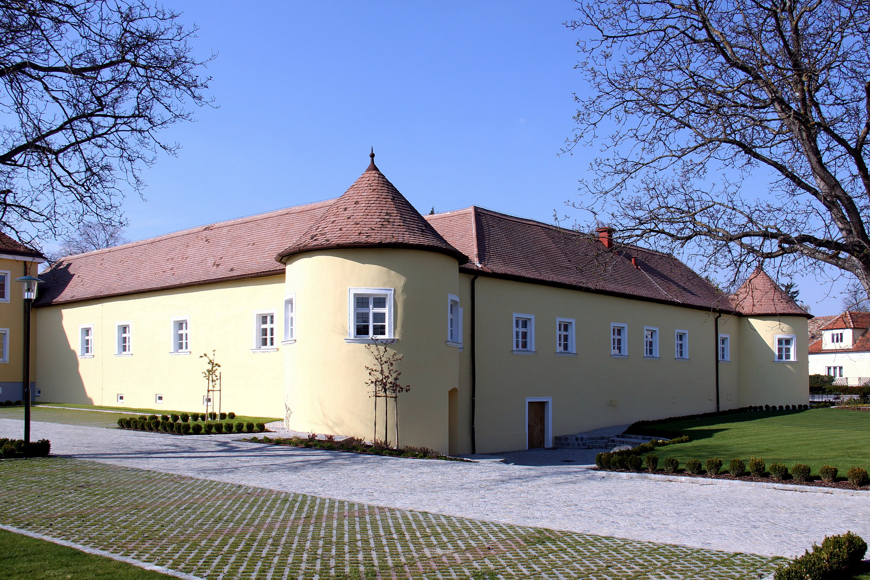 Castle - Siegendorf. Object location47° 46′ 47.68″ N, 16° 32′ 22.2″ E